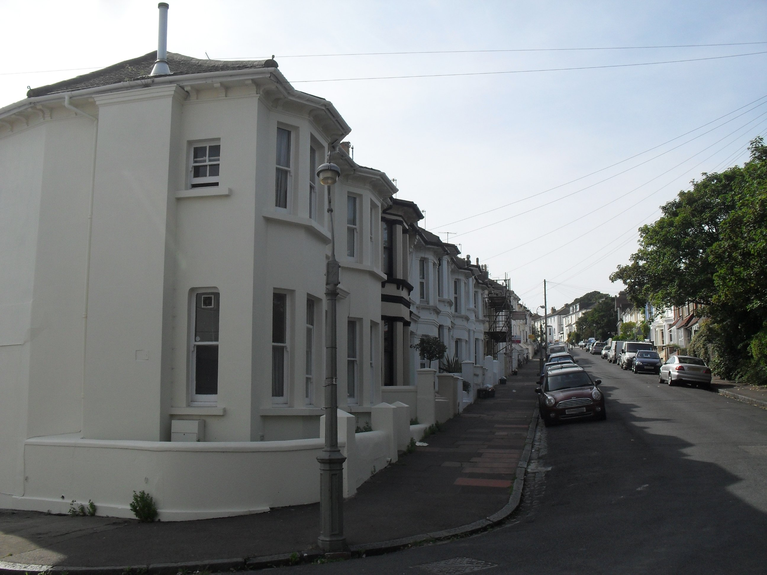 A westward view along Richmond Road in the Round Hill area of the City of Brighton and Hove, England. Most of these houses date from the 1860s.